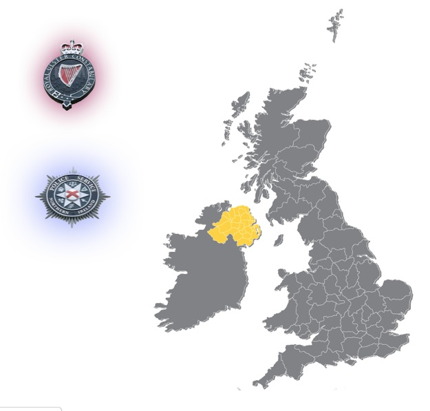 An image to represent the change of policing within NI, inline with affirmative action measures.